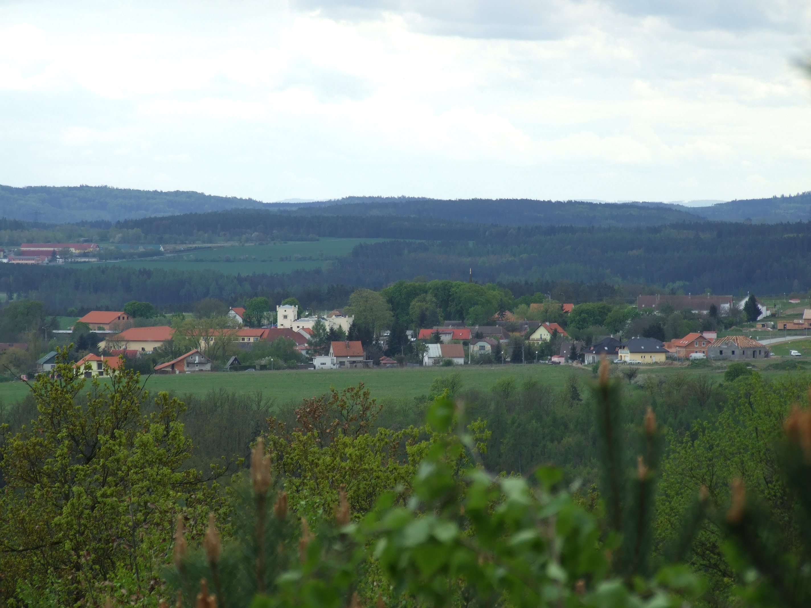 Trnová village, Prague-West District, Central Bohemian regionhelp